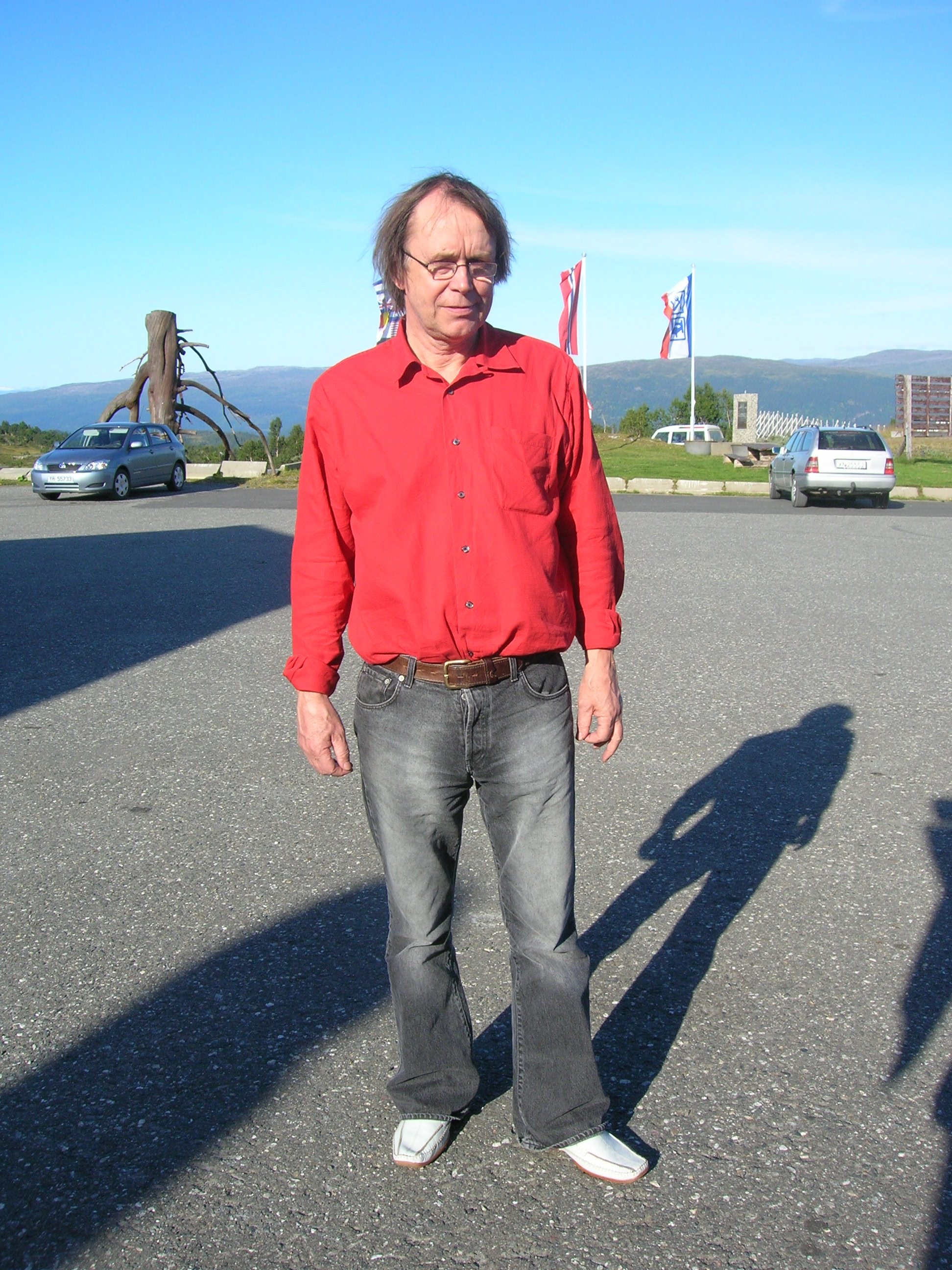 Øystein Meier Johannessen, leader of Samfunnspartiet. Photo on Korgfjellet in Hemnes municipality, county of Nordland, Norway. Photo 17 August, 2008 with a Nikon Coolpix 5600 5,1 Megapixel camera.